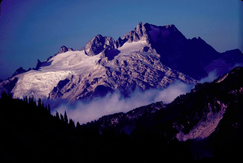 Dome Peak, Glacier Peak Wilderness, United States